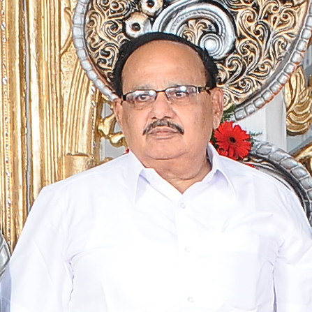 KM Saifullah ATP EX-MP RS TDP